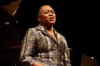 Barbara Hendricks at the Festiwalu Dialogu Czterech Kultur (Festival of the Dialogue of Four Cultures) in Łódź, Poland.